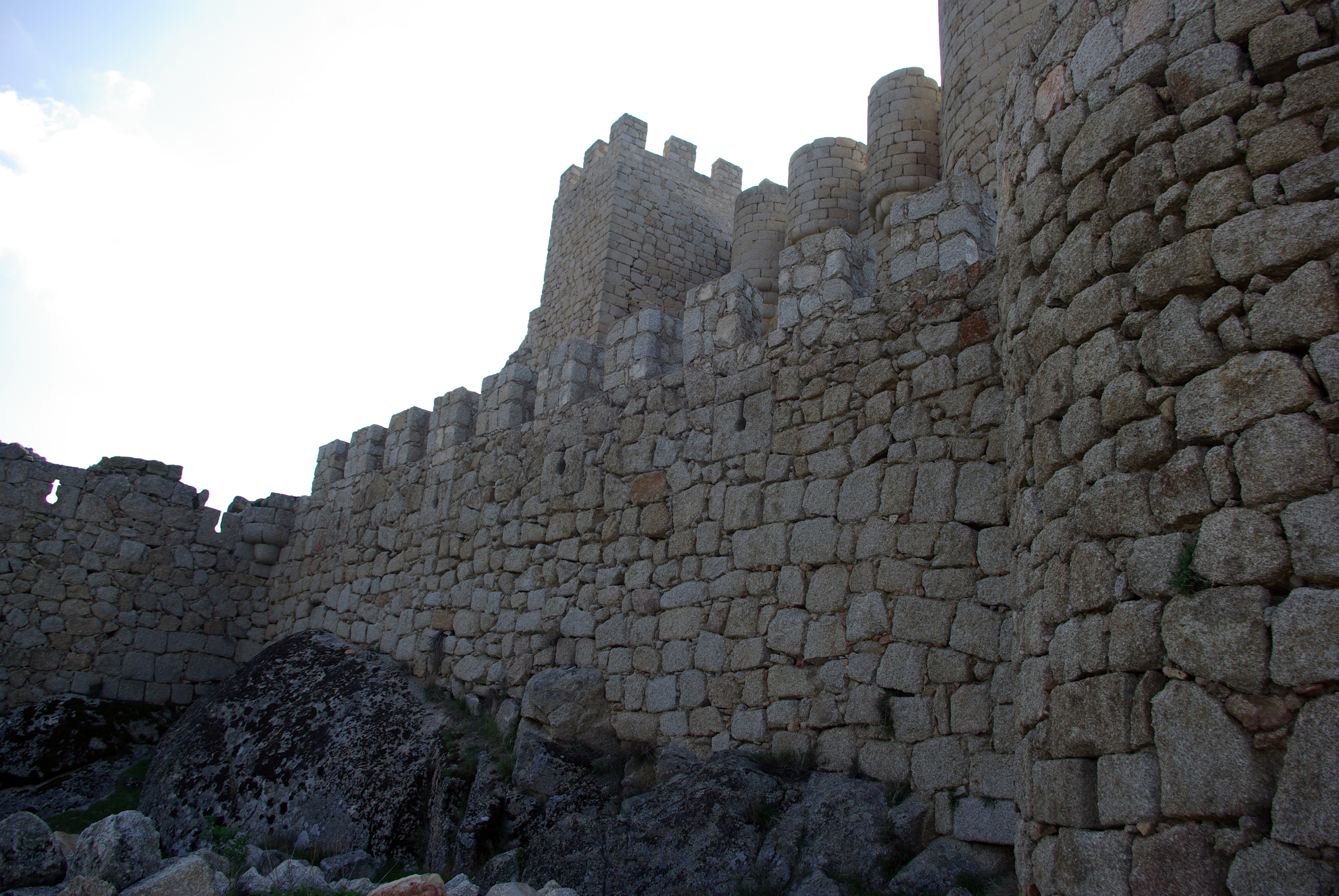 Castle of Manqueospese in Mironcillo (Ávila, Spain)